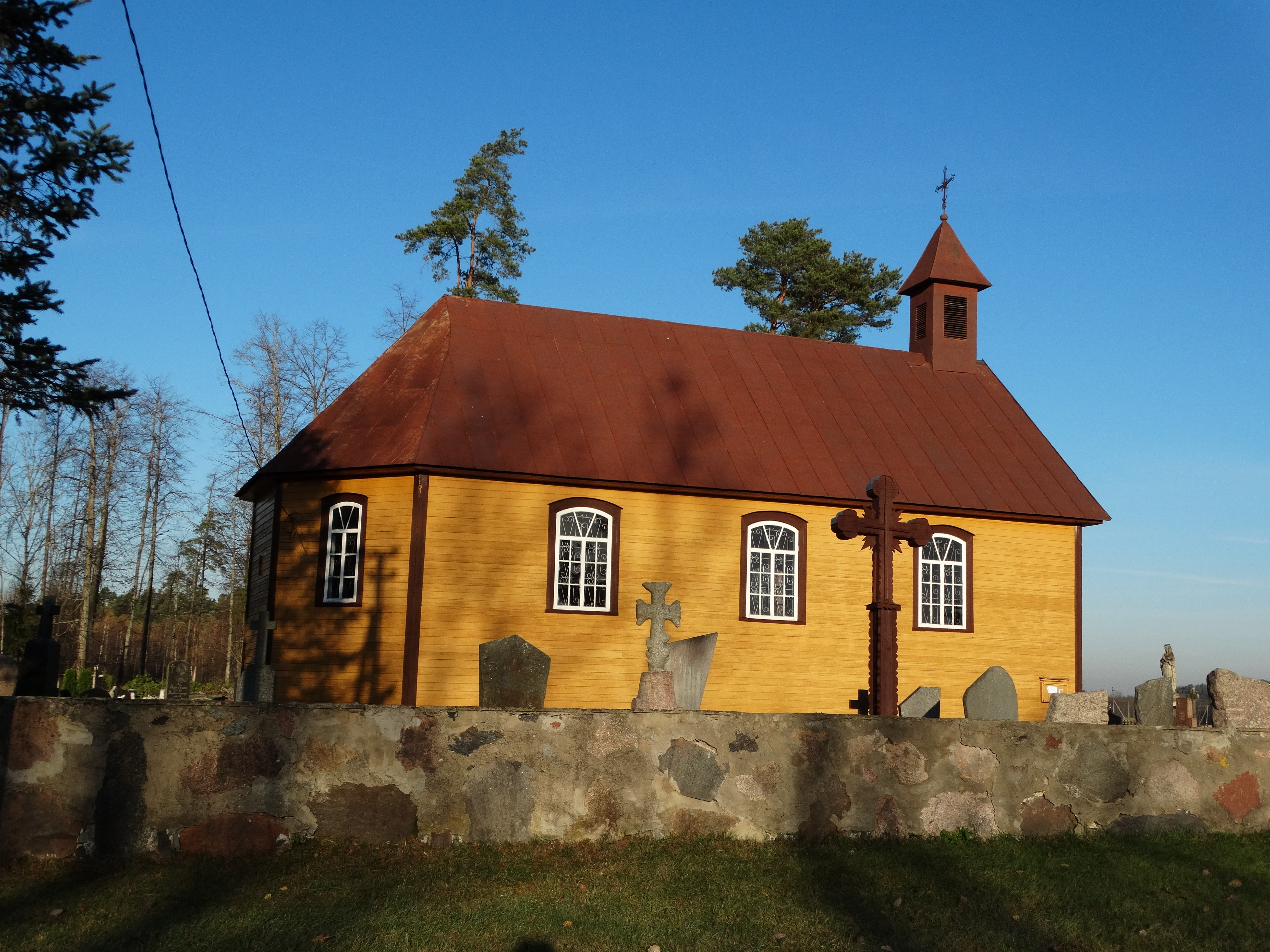 Chapel in Bygailiai, Panevėžys district, Lithuania